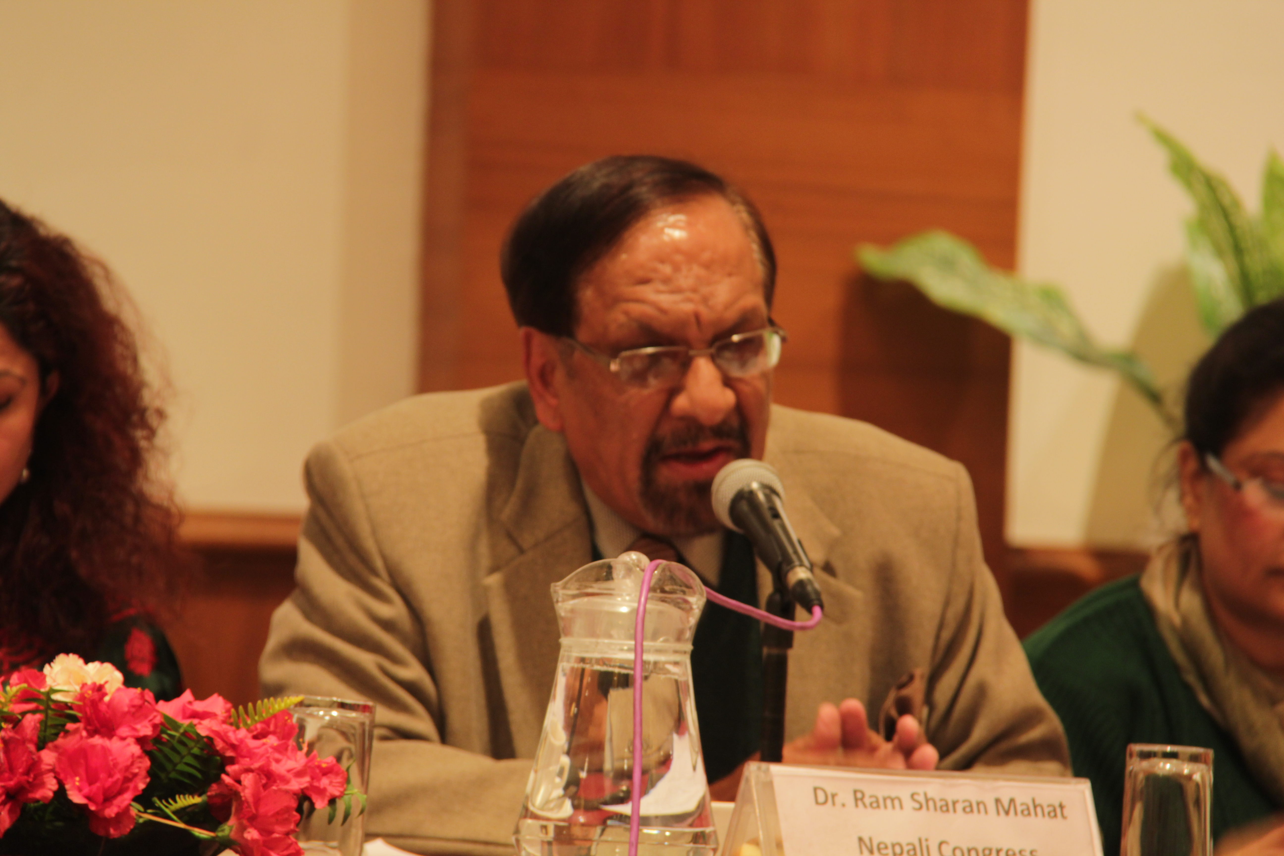 Ram Sharan Mahat speaking in a program on women's participation in politics.